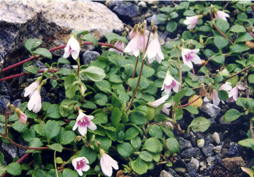 Linnaea borealis